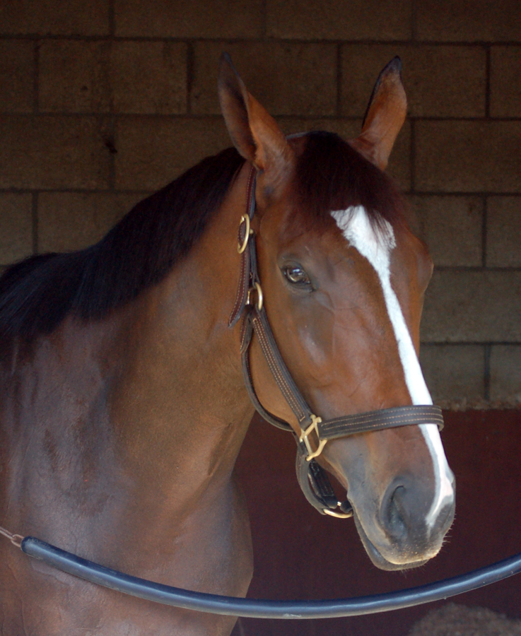 Nashoba's Key in her stall at Del Mar on 08/18/07